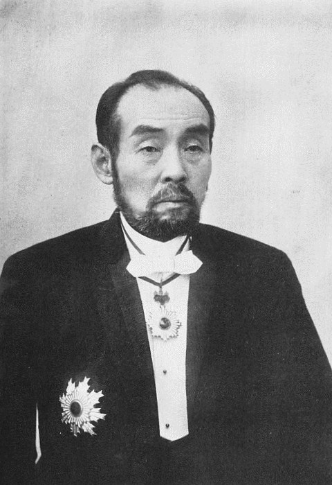 Denzaburo Fujita